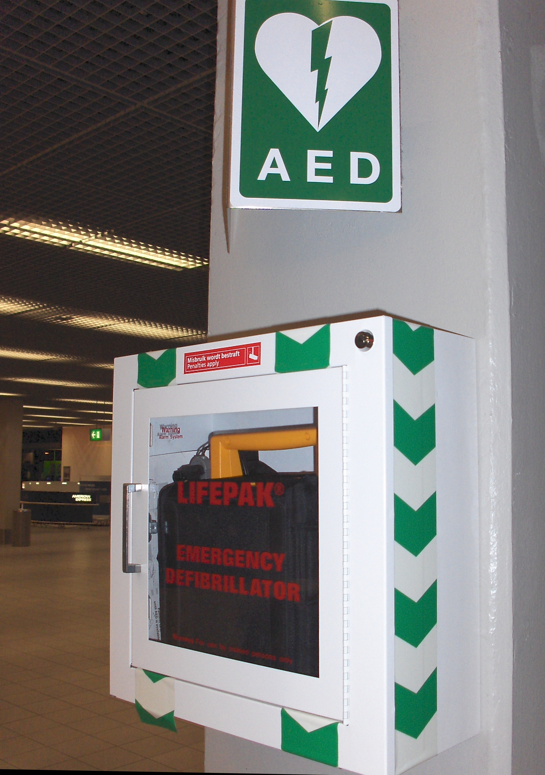 An AED in the Amsterdam Airport, Schiphol.